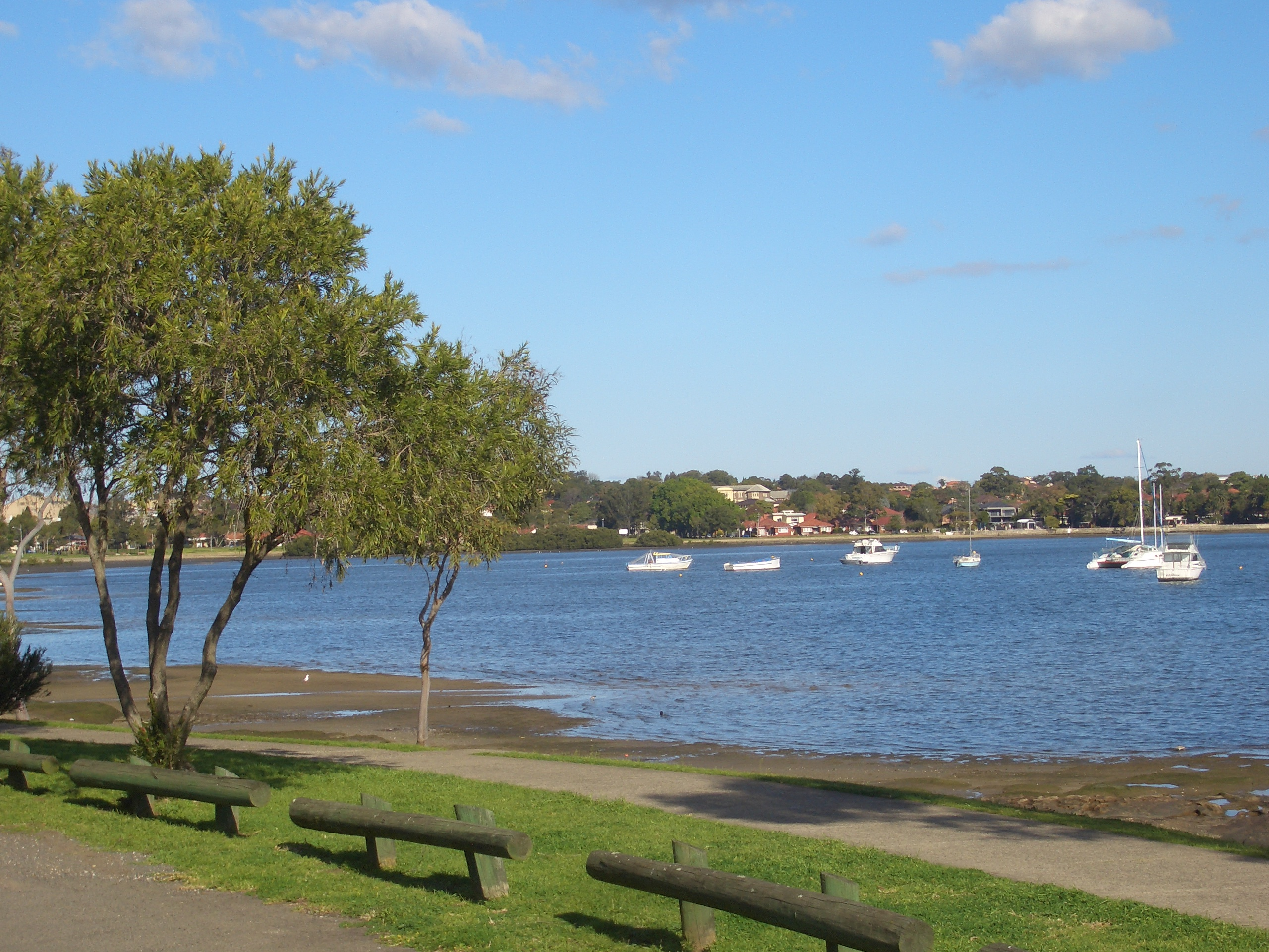 Wareemba, view over Hen and Chicken Bay, Sydney